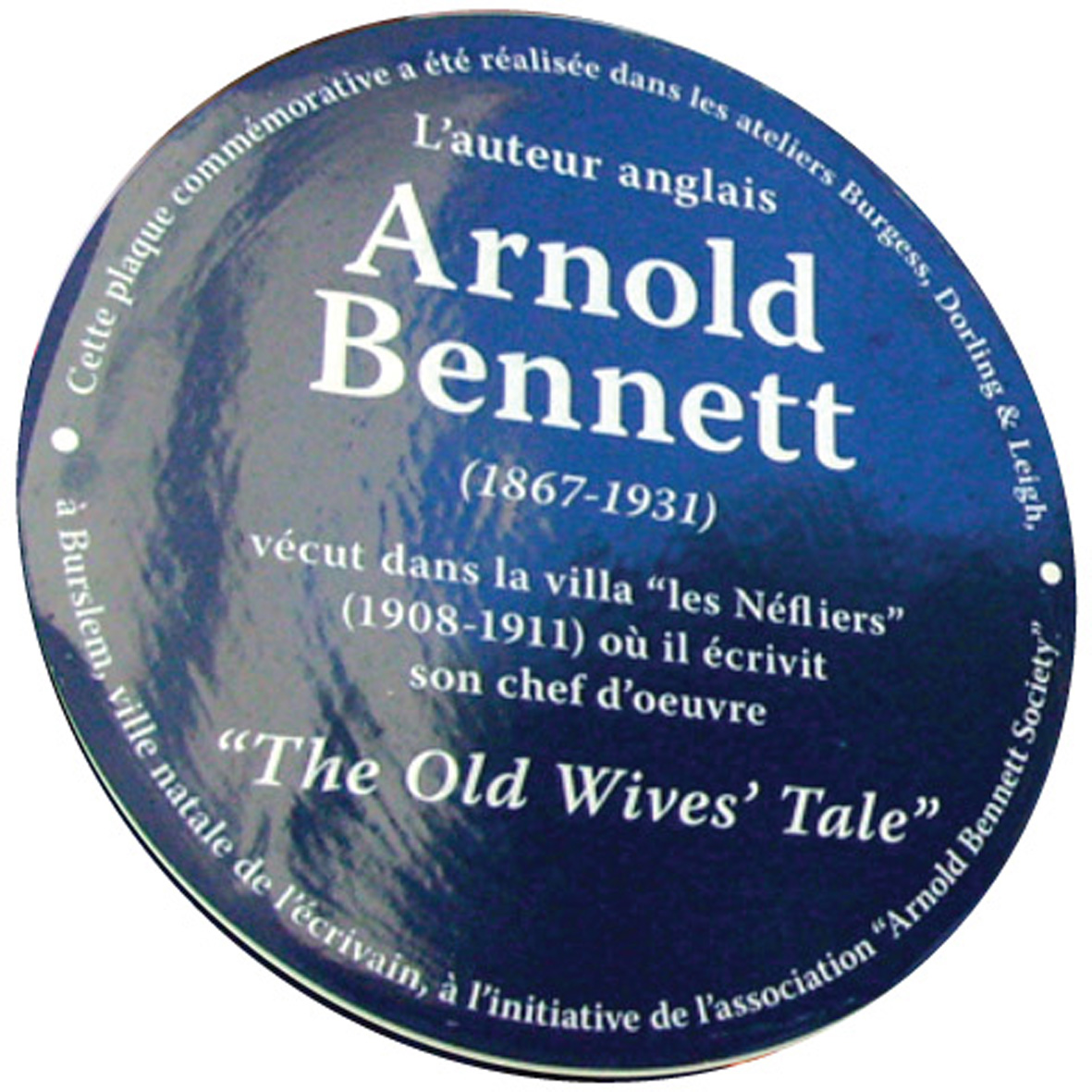 Commemorative plaque to the author Arnold Bennett in Fontainebleau